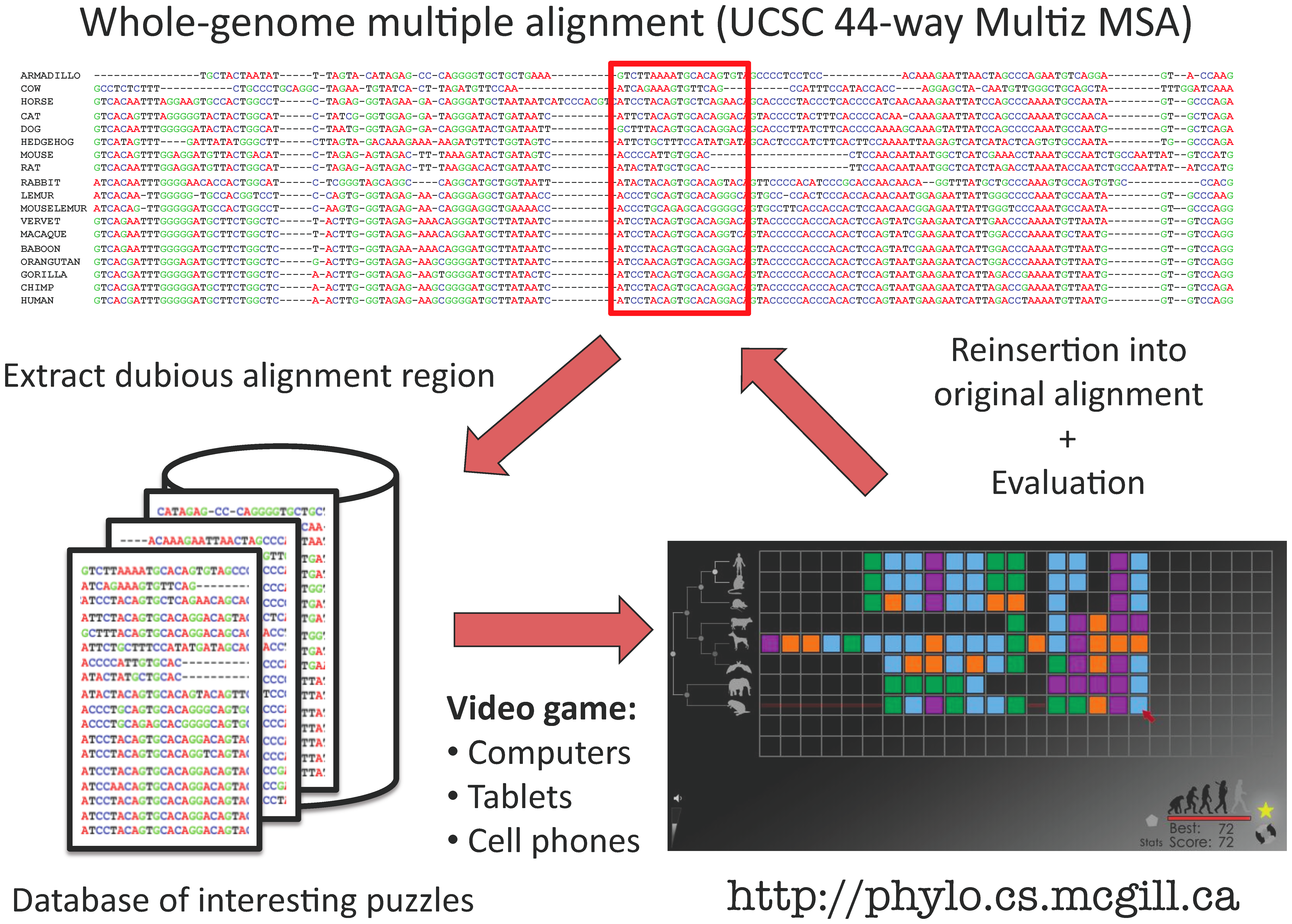 Phylo crowd-sourcing system for local improvement of multiple genome alignments.